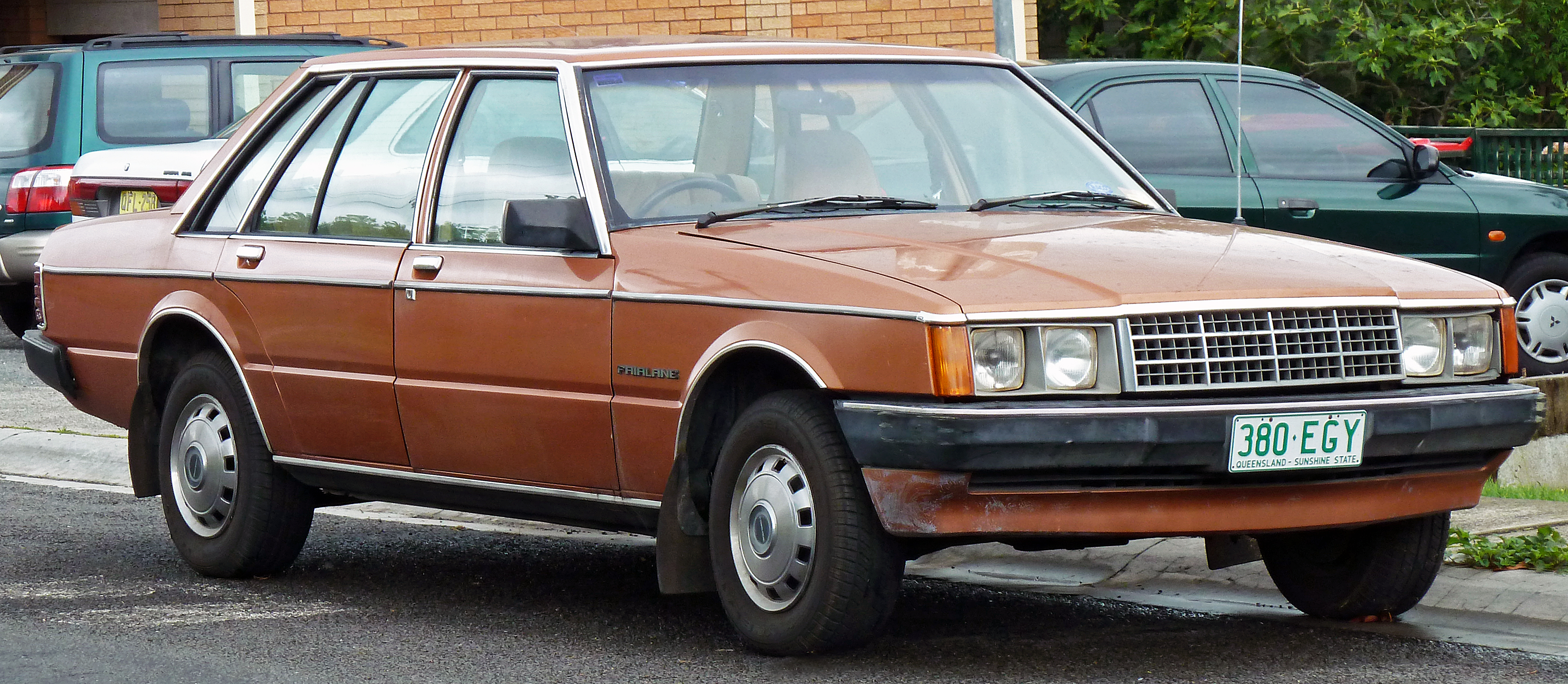 1982–1984 Ford Fairlane (ZK) sedan. Photographed in Jamberoo, New South Wales, Australia.